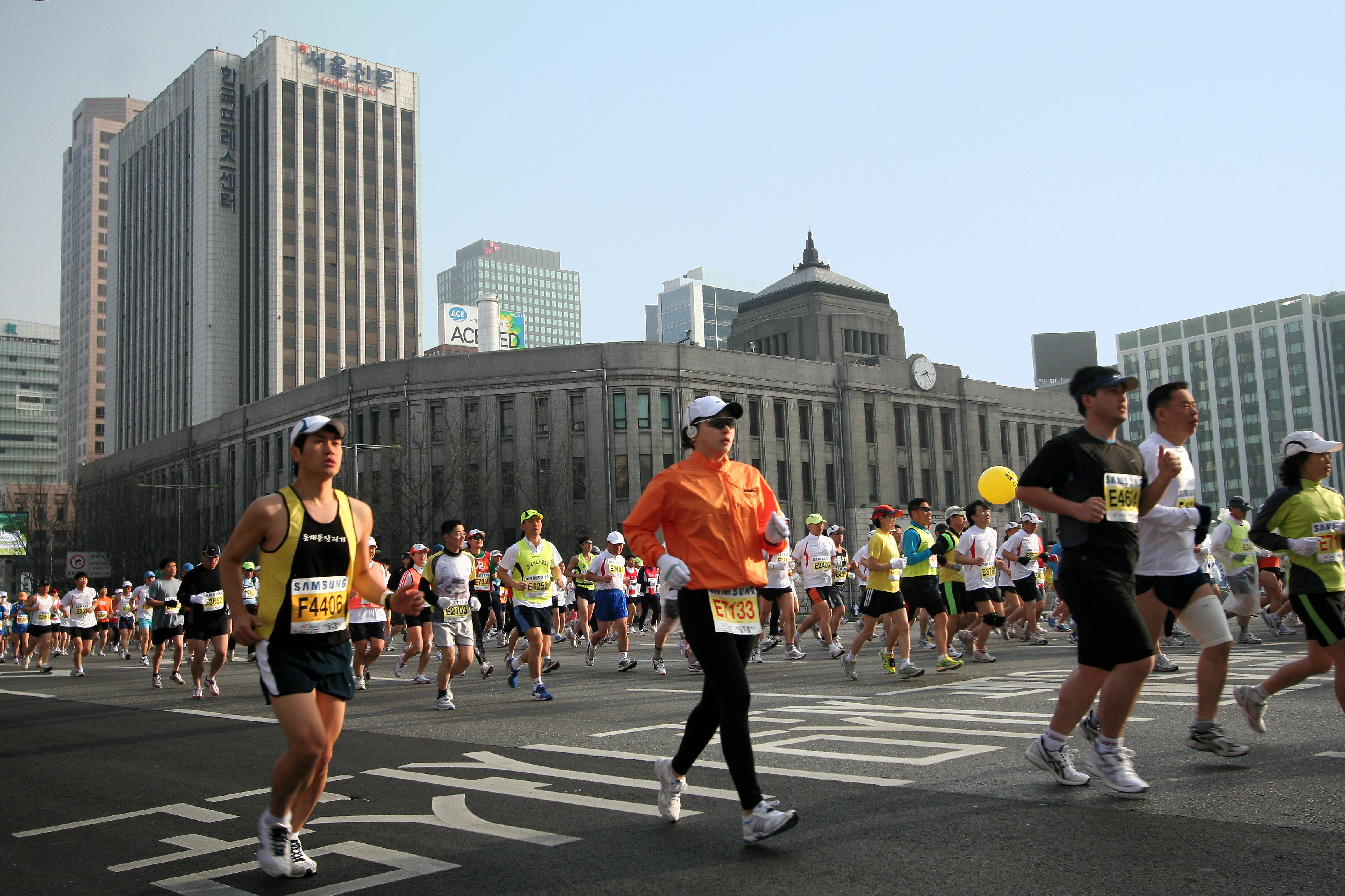 Runners in the Seoul International Marathon pass City Hall, near the start of the 42km course.